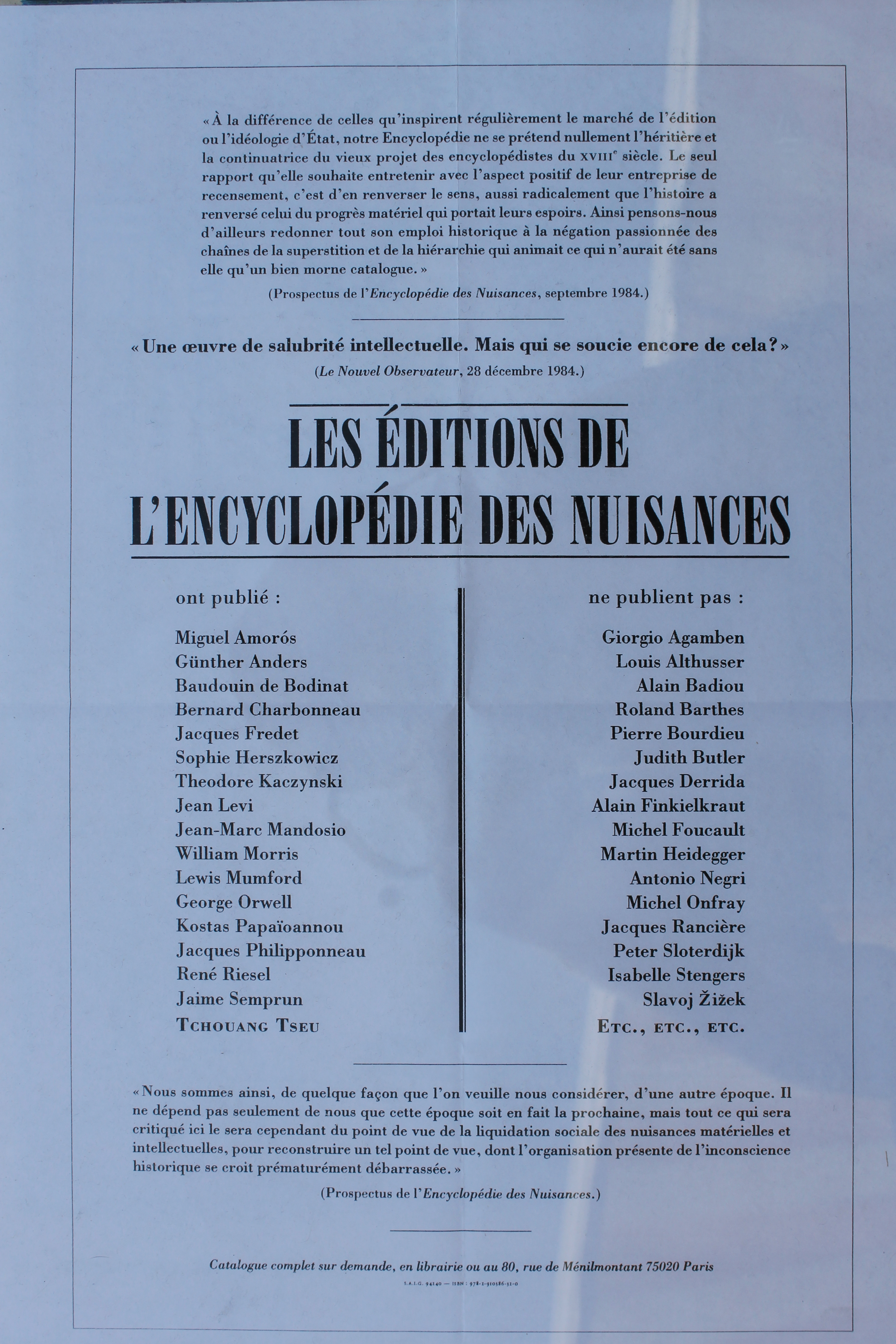 Encyclopédie des Nuisances poster.